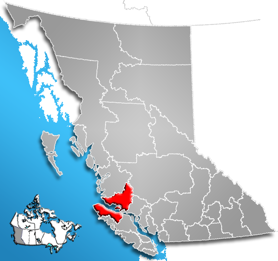 Location of Regional District of Mount Waddington, British Columbia